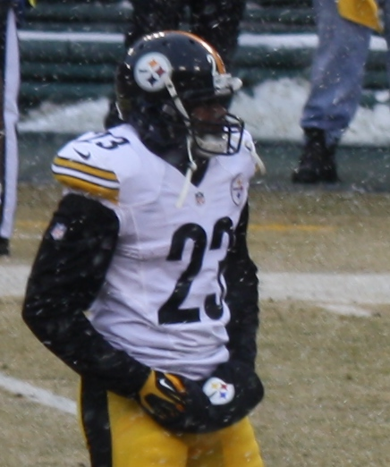 Pittsburgh Steelers running back Felix Jones during warmups.